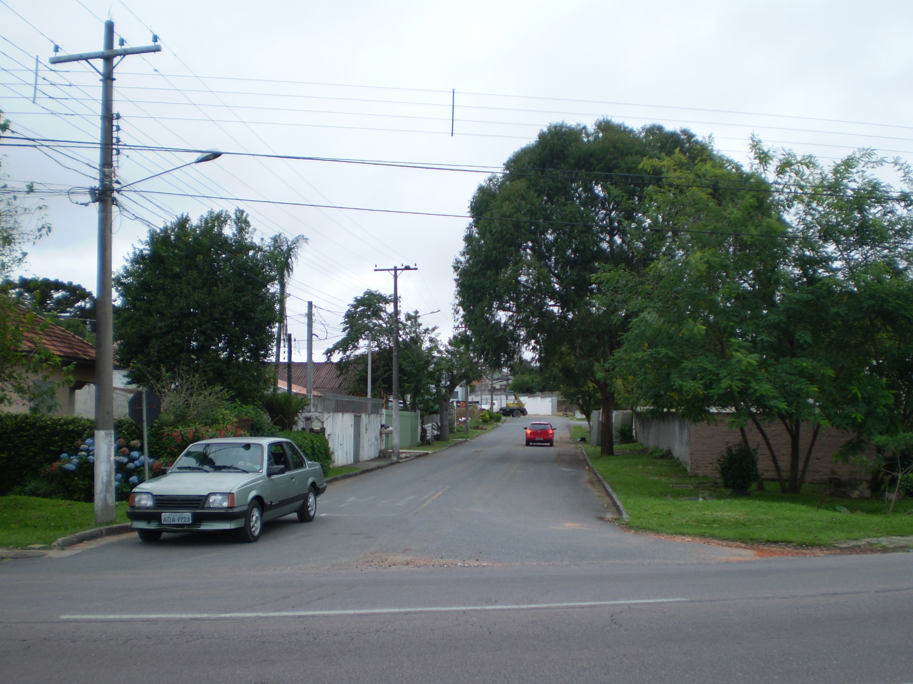 Rua Adolfo Werneck em Curitiba